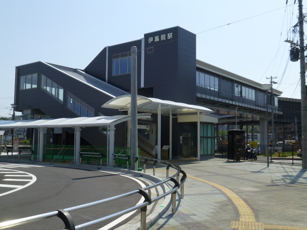 North side of the station building at Ijuin railway station, Hioki, Kagoshima, Japan.